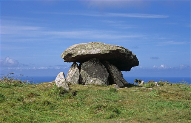 Chûn Quoit Quoit is the Cornish name for a type of megalithic chambered tomb. They consist of a number of large stones set upright to support a massive horizontal capstone, thus forming a small chamber which was used to house the remains of the dead. The whole structure would then be covered in earth to form a large burial mound.